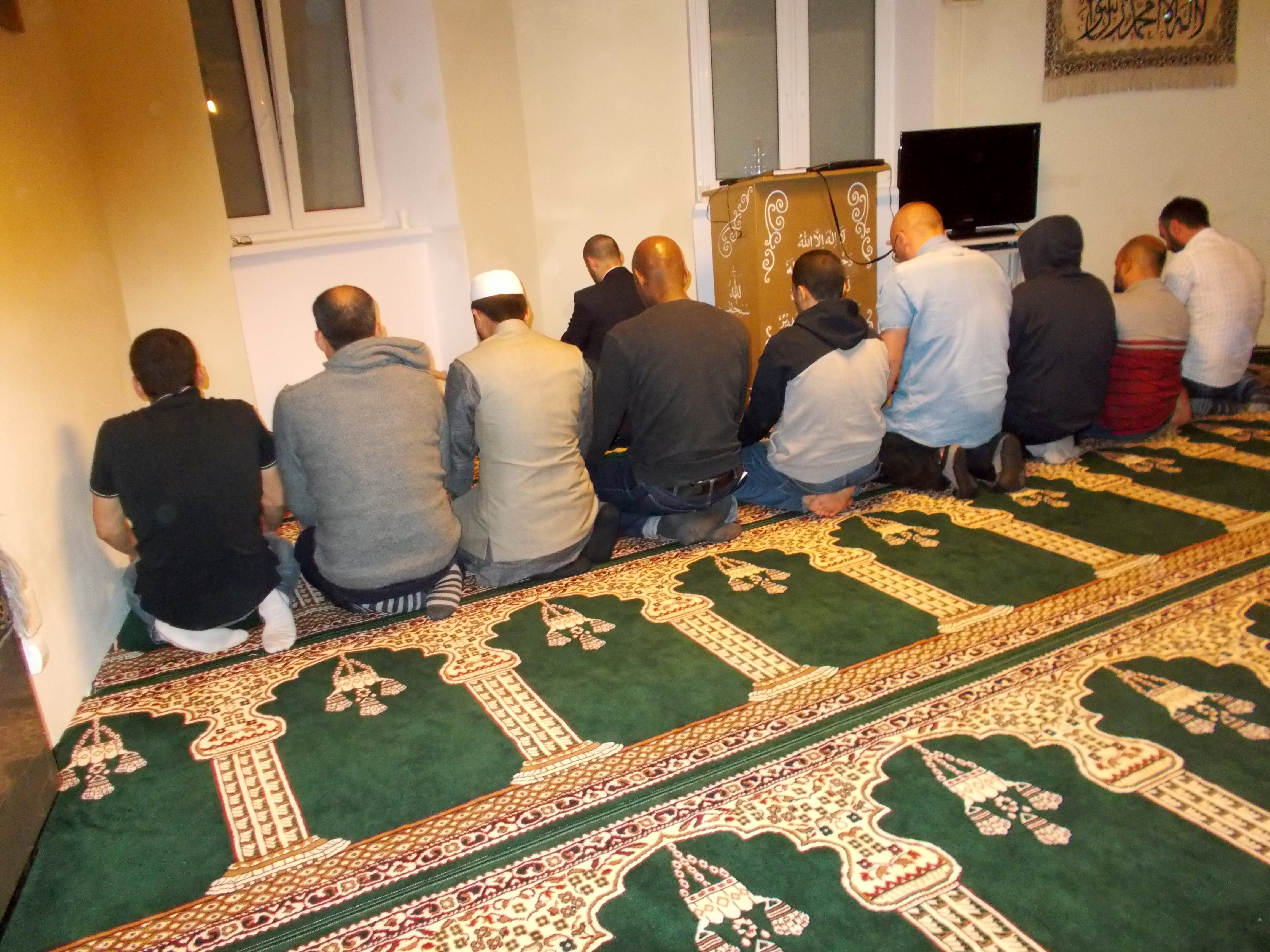 The Isha prayer in Islamic Center Kraków. Meeting during the Night of the Temples 2017